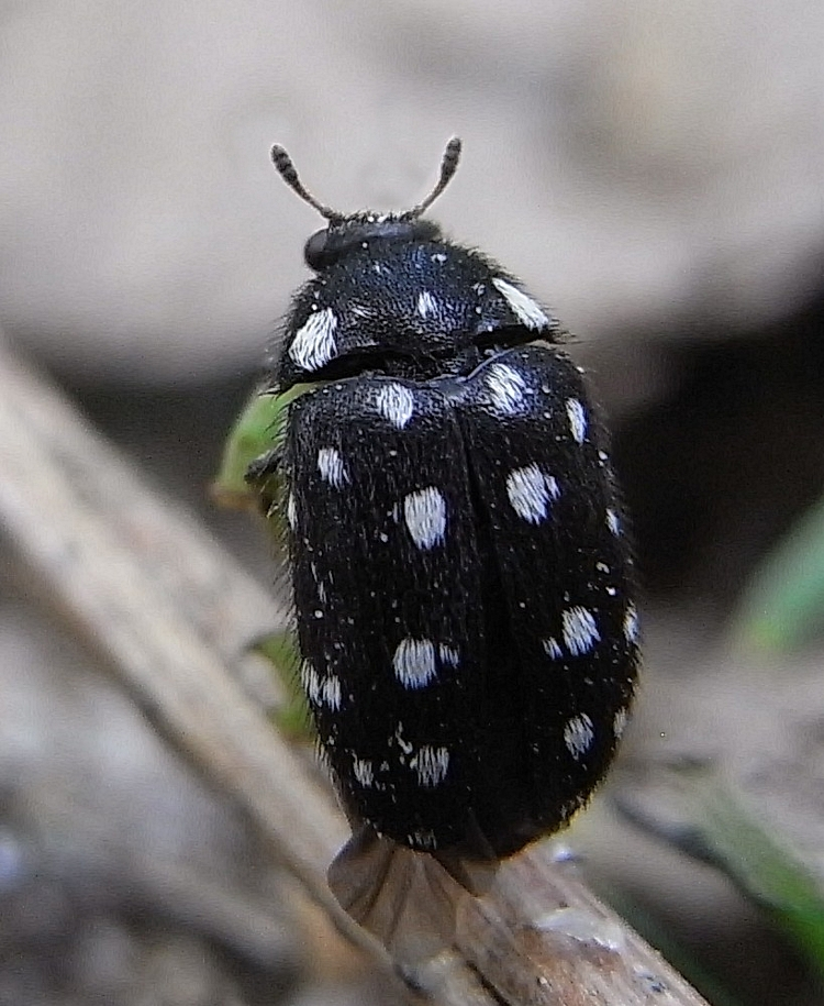 Attagenus punctatus from Hungary, near Lenti at 2010-05-01Ricoh R8